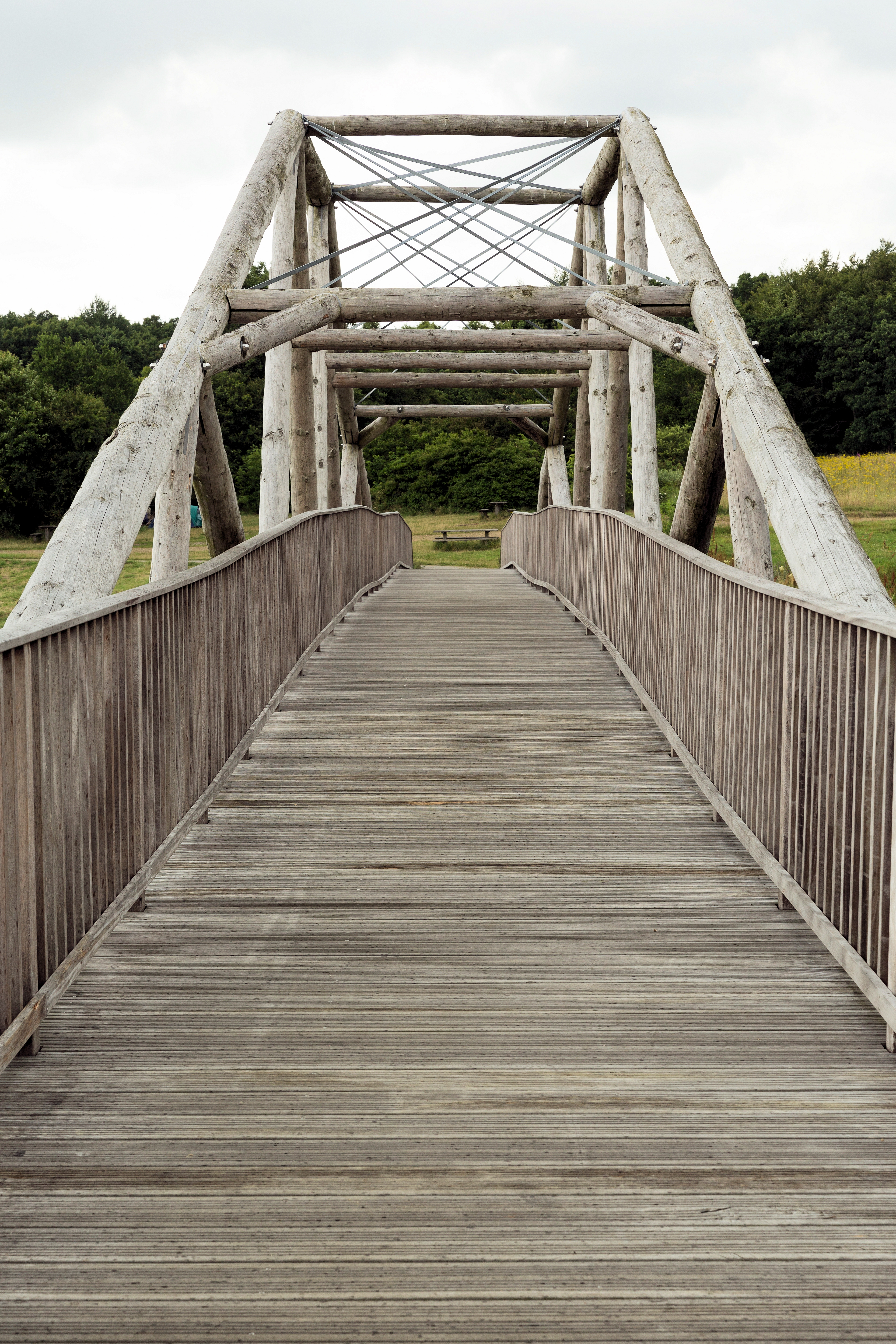 Kjællinghøl bridge